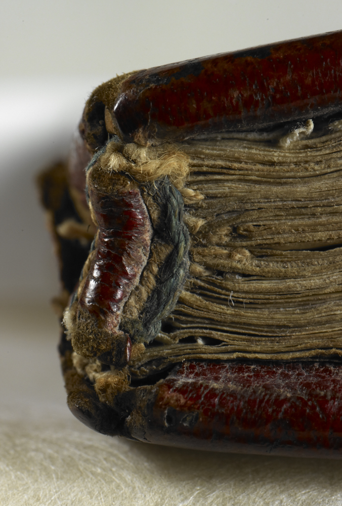 Unspecified; Caption: Headband; Colour: Unspecified; Edge: Unspecified